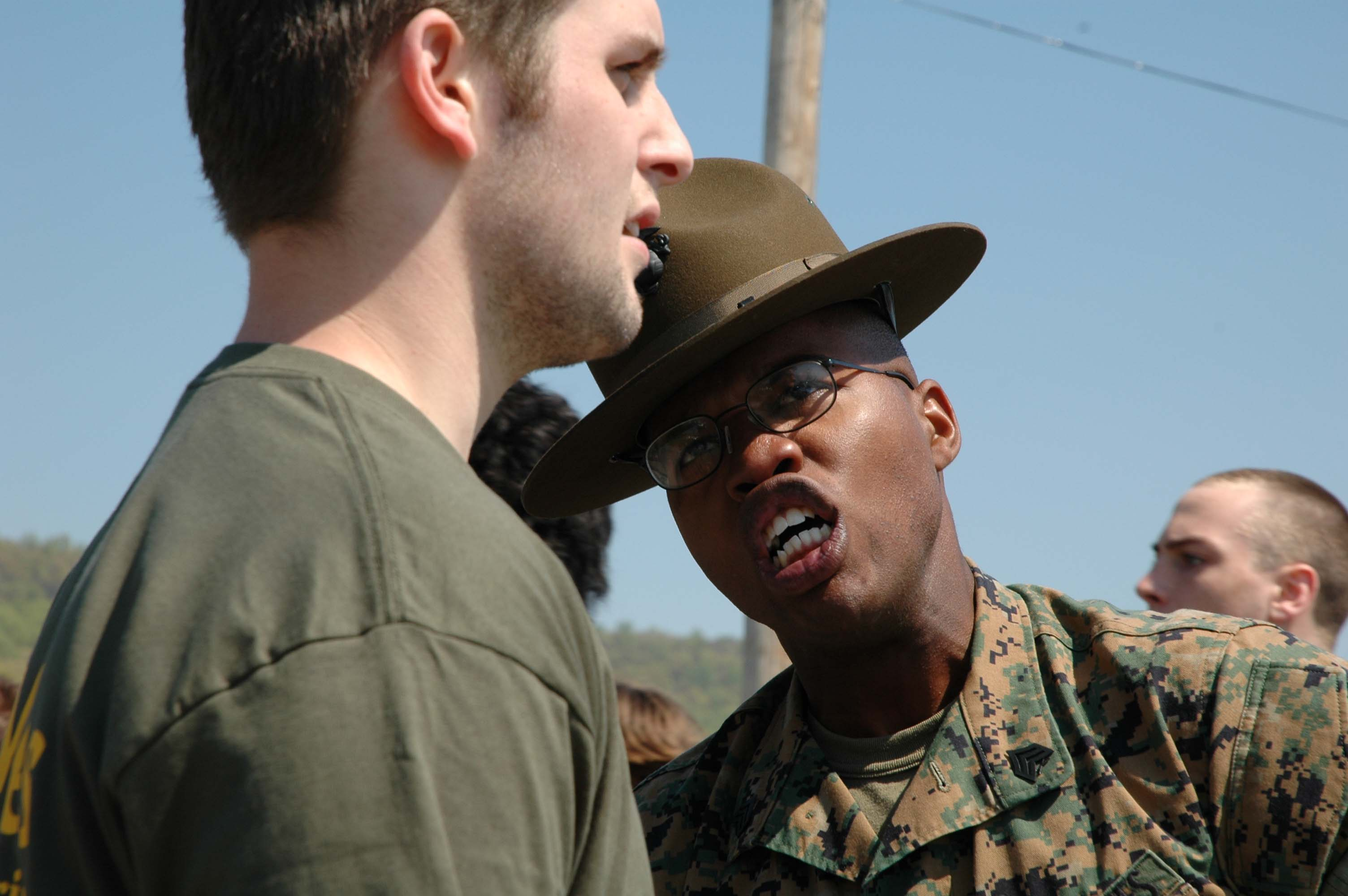 Sergeant Paul Nixon, drill instructor, 3rd Recruit Training Battalion, Marine Corps Recruit Depot Parris Island, South Carolina, gives a Delayed Entry Program poolee an example of the harassing instructional style to be expected at boot camp. Approximately 400 future Marines gathered May 7, 2005 at Fort Indian Town Gap, Pennsylvania, for Recruiting Station Harrisburg’s Annual Future Marine Challenge, an event meant to familiarize the future Marines with boot camp.